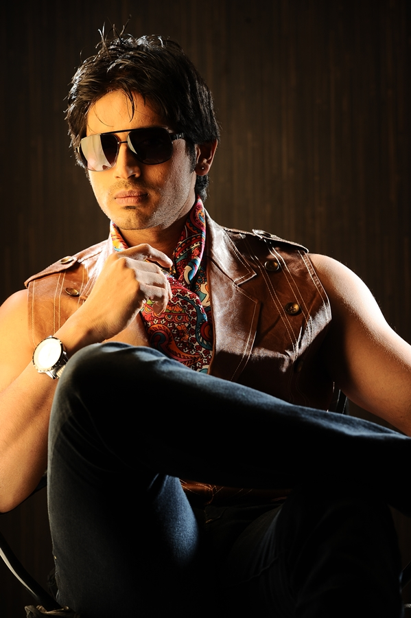 Arindam Roy